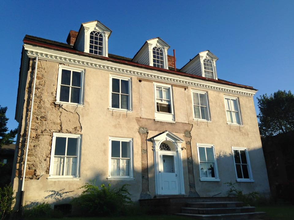 Selma mansion 2015